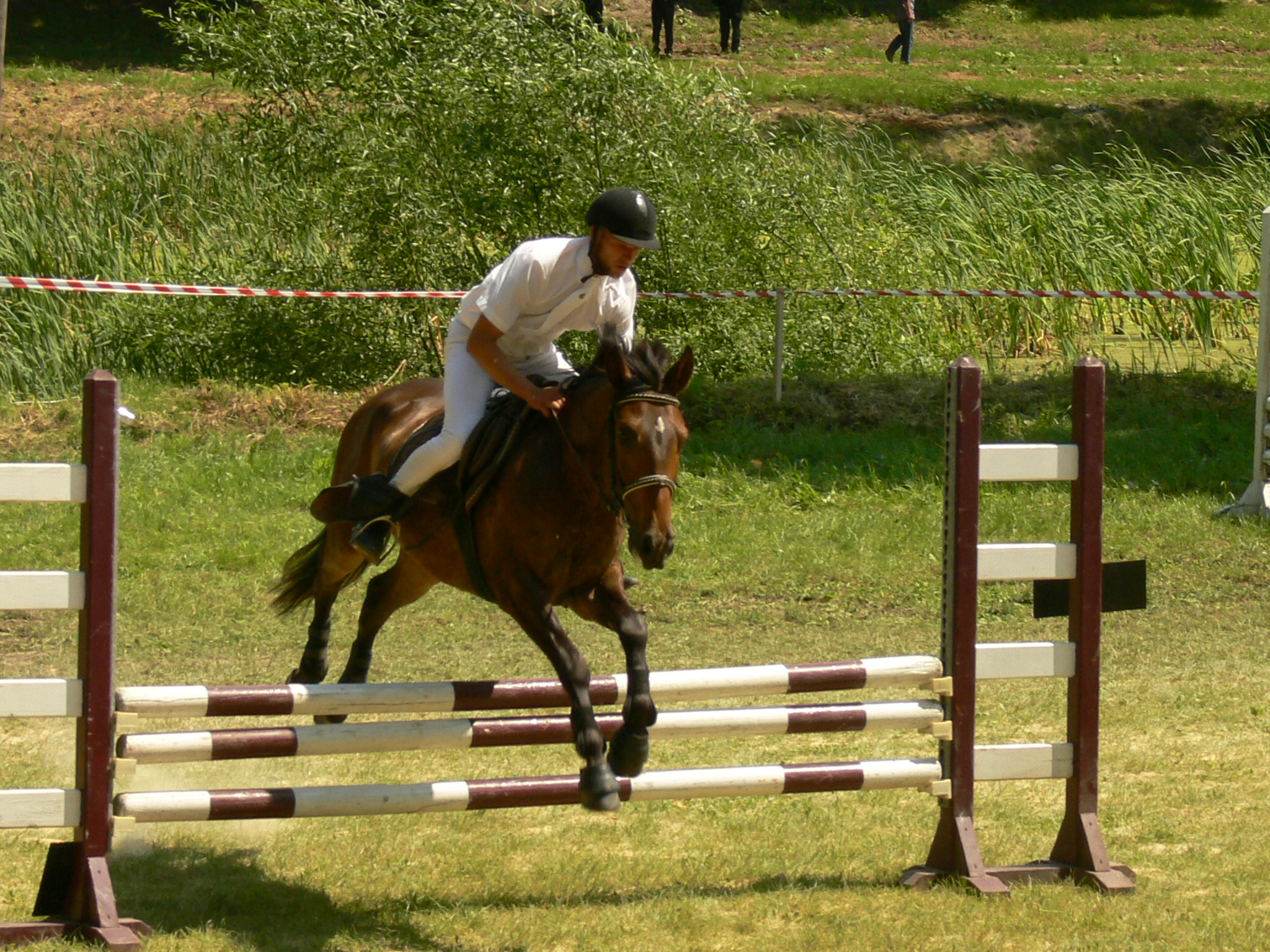 Show Jumping